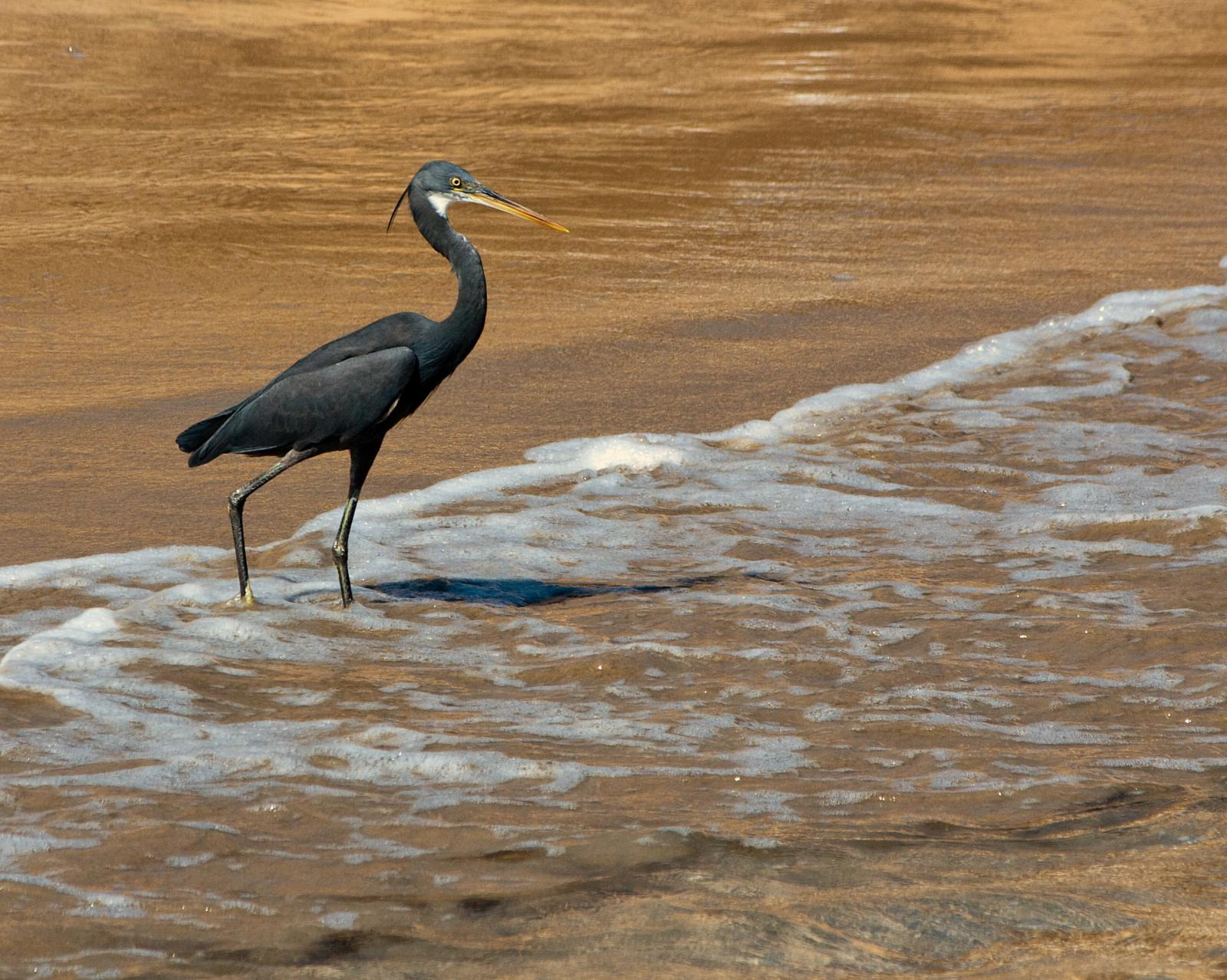 A dark morph Western Reef Heron (also known as the Western Reef Egret) on a beach in Oman. This bird spent 10 minutes walking up and down the beach catching fish on each break of the tide.